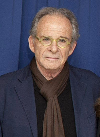 U.S. Secretary of State John Kerry poses for a photo with actors from the play 'Camp David' who are participating in the Secretary’s Open Forum at the U.S. Department of State in Washington, D.C., on April 29, 2014. [State Department photo/ Public Domain]